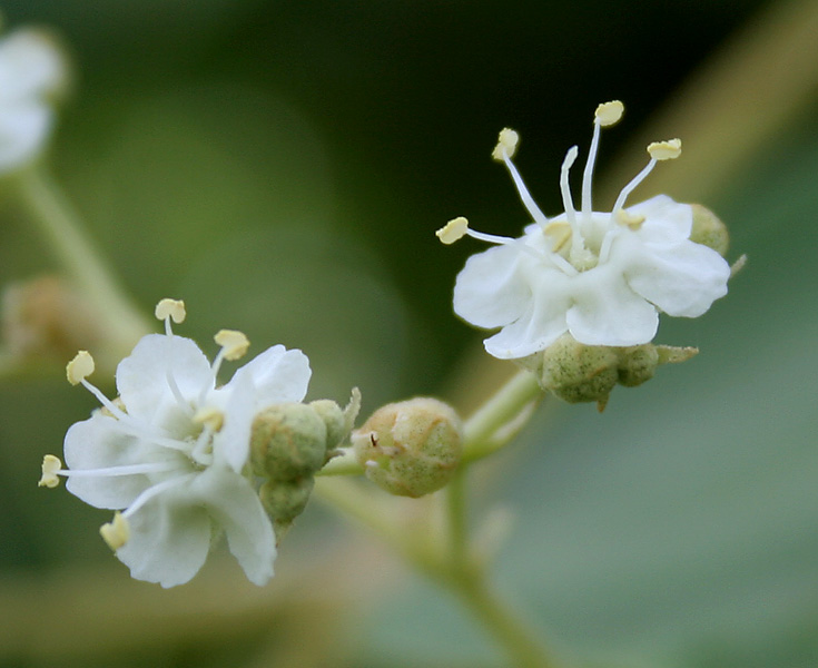 TeakTectona grandis at Ananthagiri Hills, in Rangareddy district of Andhra Pradesh, India.